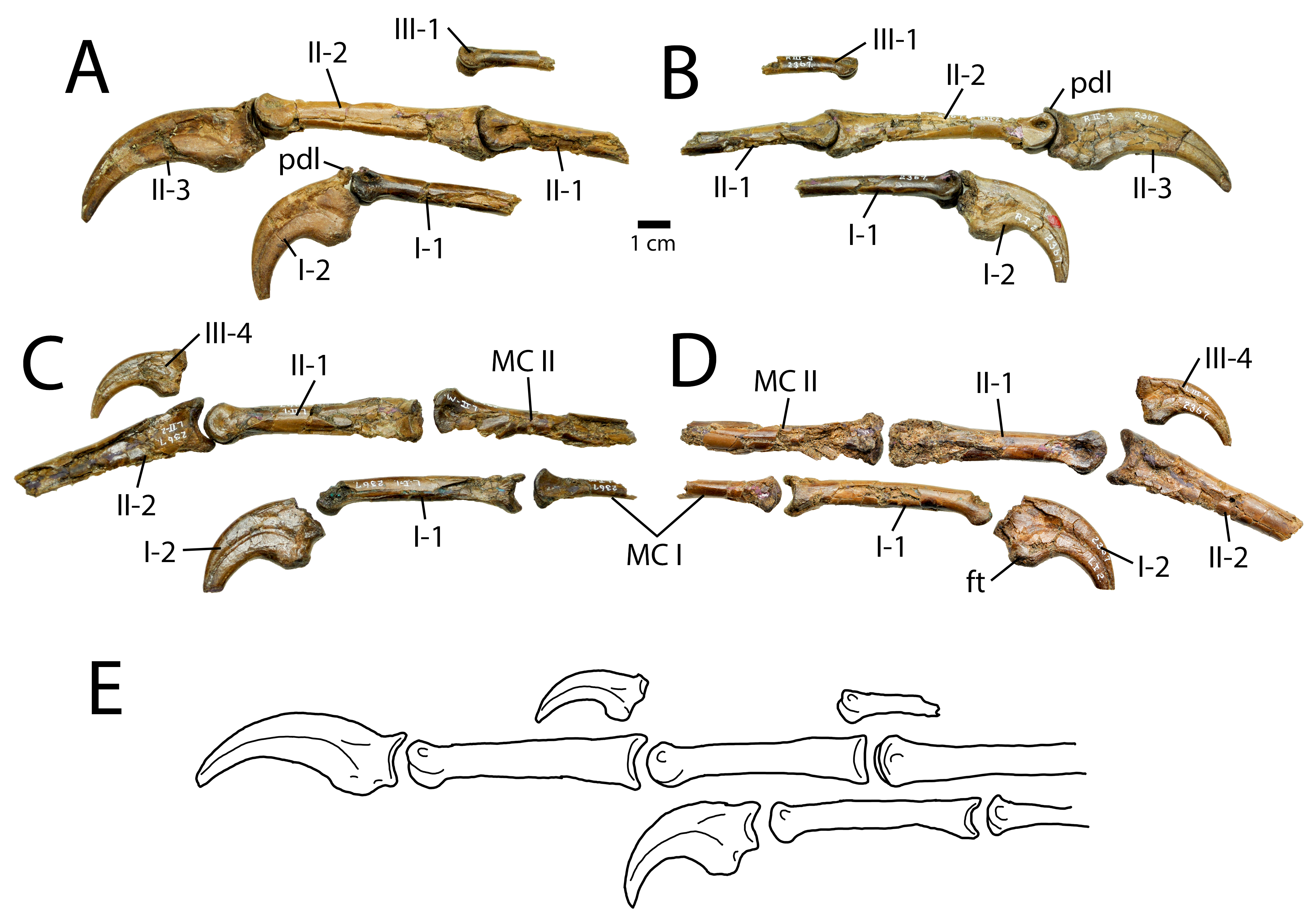 CMN 2367, holotype manus of Chirostenotes pergracilis. Right manus in medial (A) and lateral (B) views. Leftmanus in lateral (C) and medial (D) views. Reconstruction (E) of right manus in medial view based on composite of bothmani. Abbreviations: ft, flexor tubercle; MC I, metacarpal I; MC II, metacarpal II; pdl, proximodorsal lip.